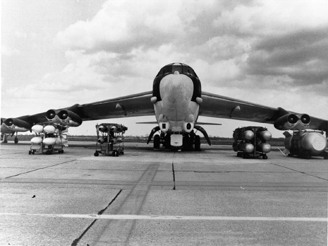 B-52 Stratofortress with payloads it was capable of carrying. "The B-52G of the 2d Bomb Wing, Barksdale AFB, Louisiana, "poses" with examples of the various munitions it was capable of carrying, 17 March 1982 (left to right: B-43, B-61/1, B-28, B-53)."